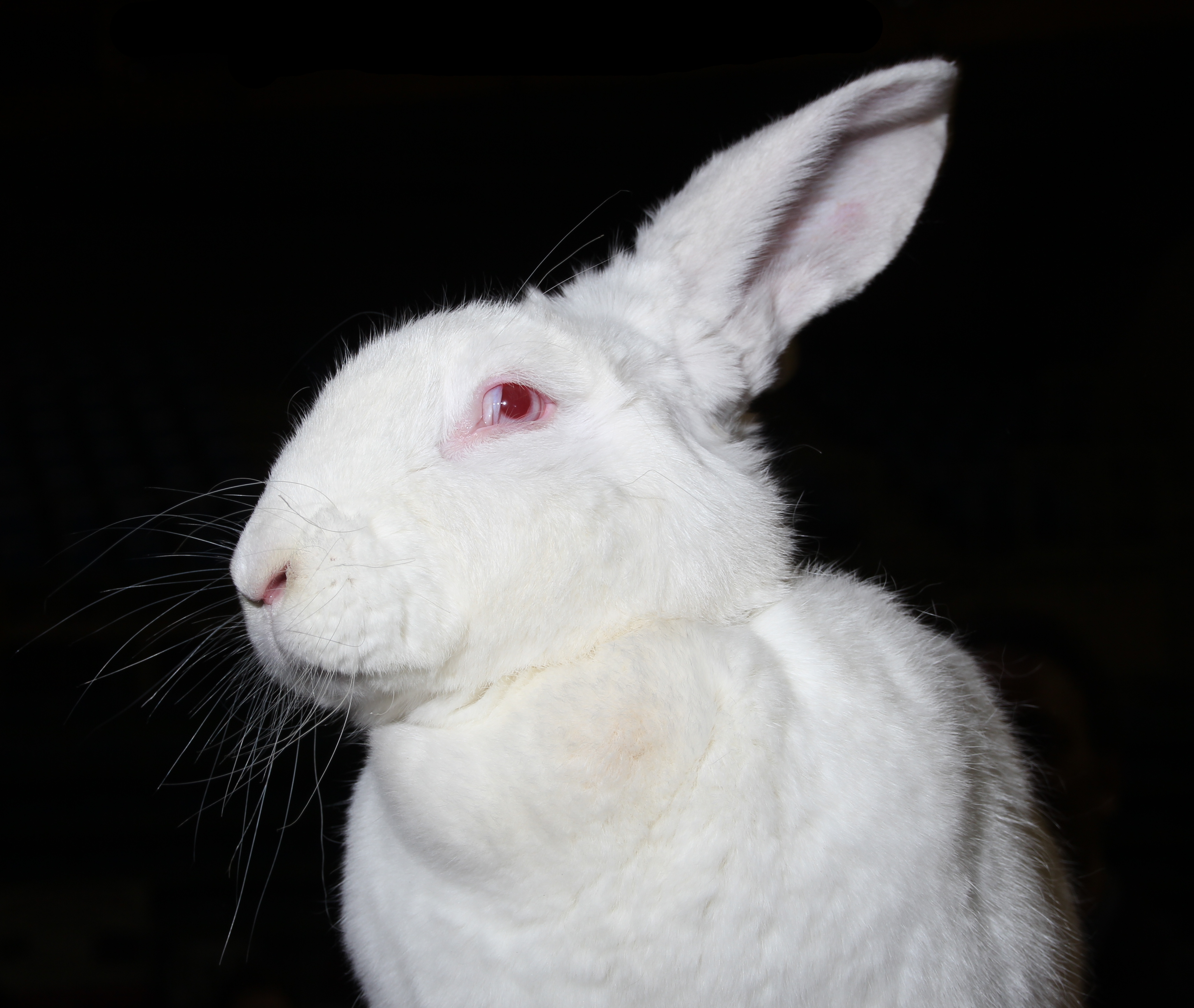 Female rabit Géant blanc du Bouscat at the Fair of agriculture and nature in Essonne 2013 held in Villebon-sur-Yvette, France.